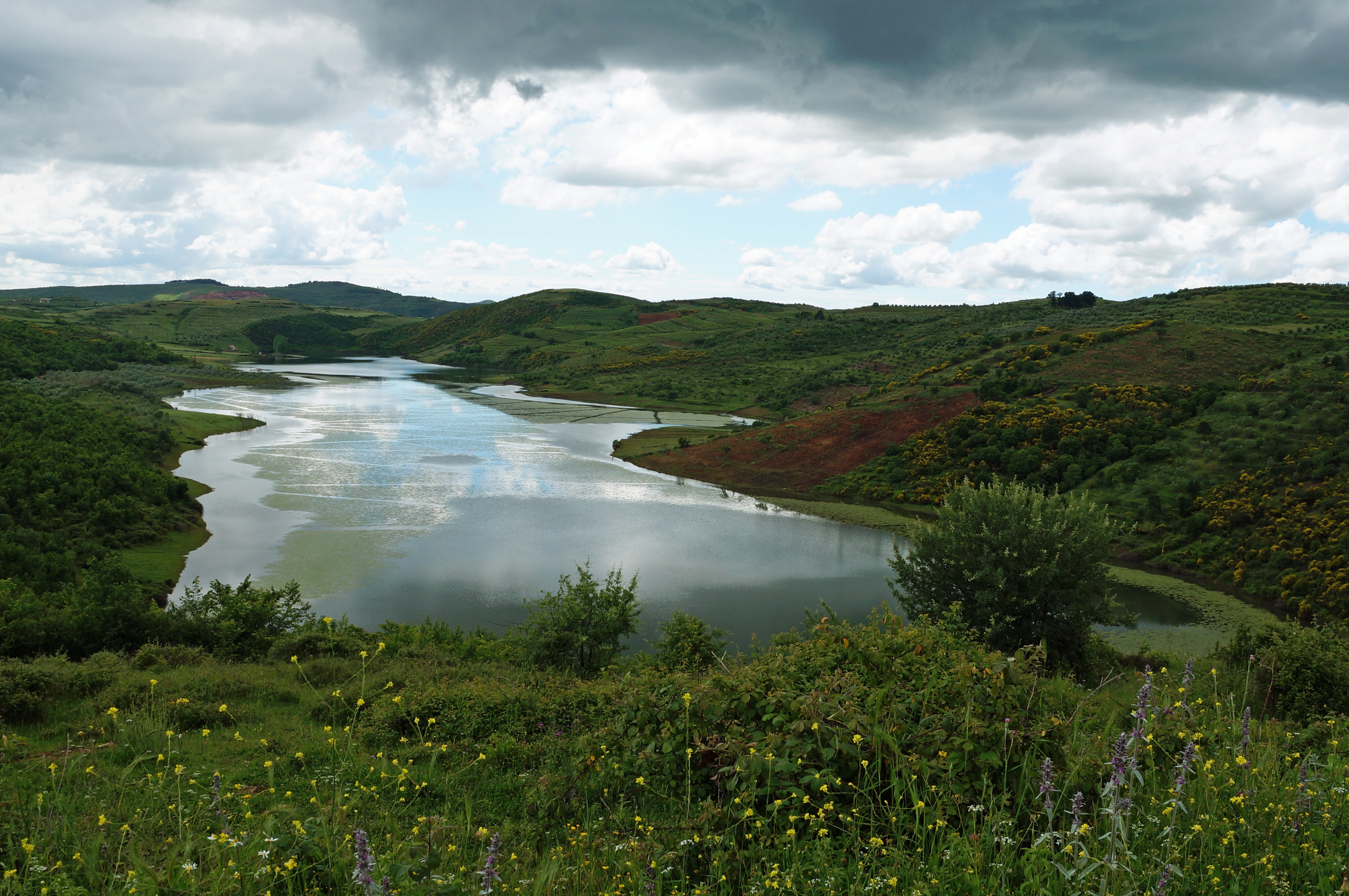 Lake of Dega, Dumreja, Albania